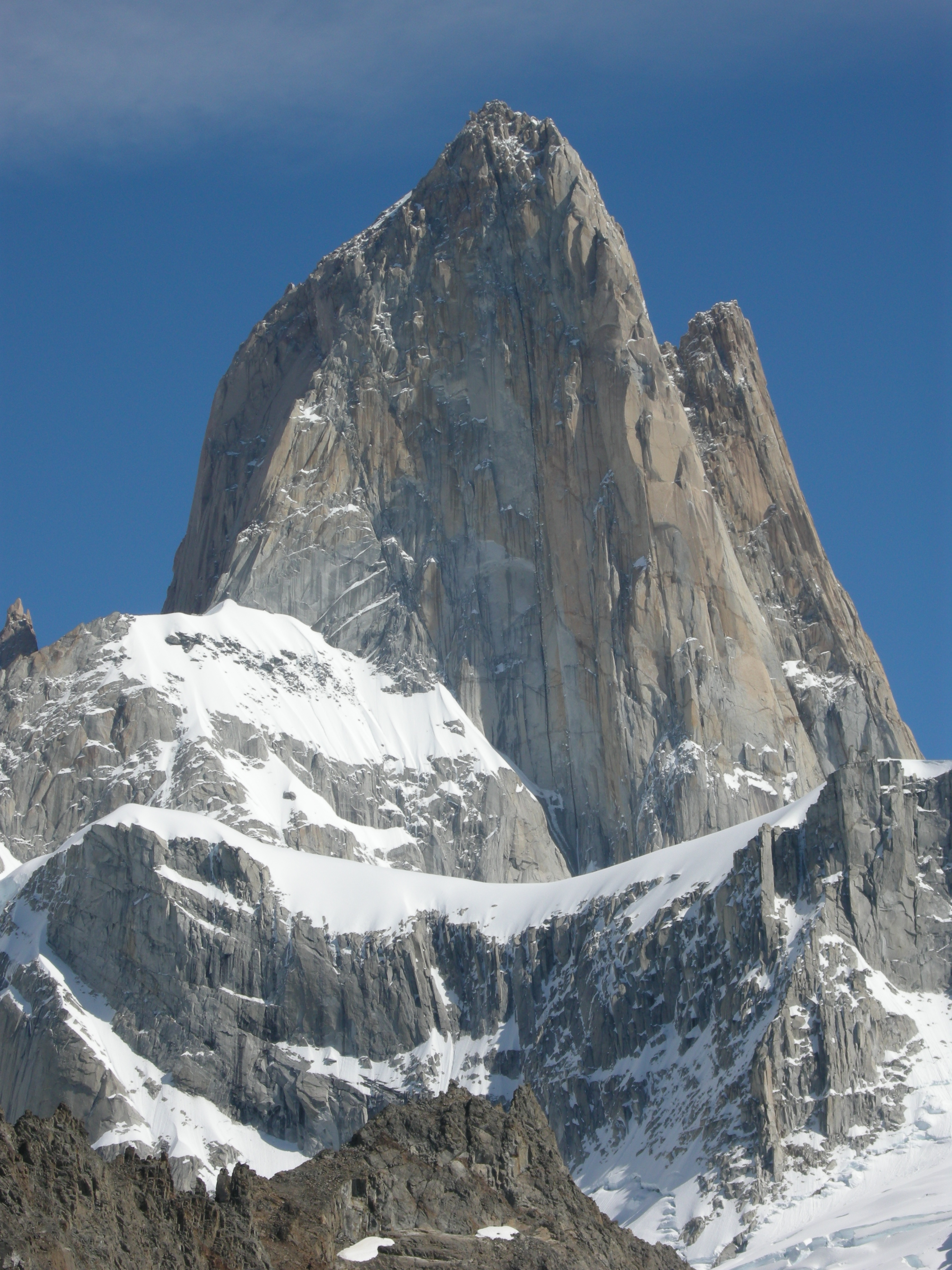 East face of the Fitz Roy (or Cerro Chaltén). Taken from the Laguna de los Tres. Los Glaciares National Park, Santa Cruz Province, Argentina